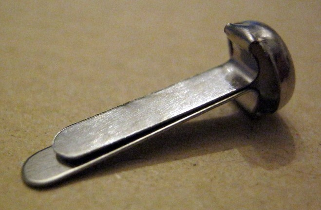 Brass fastener